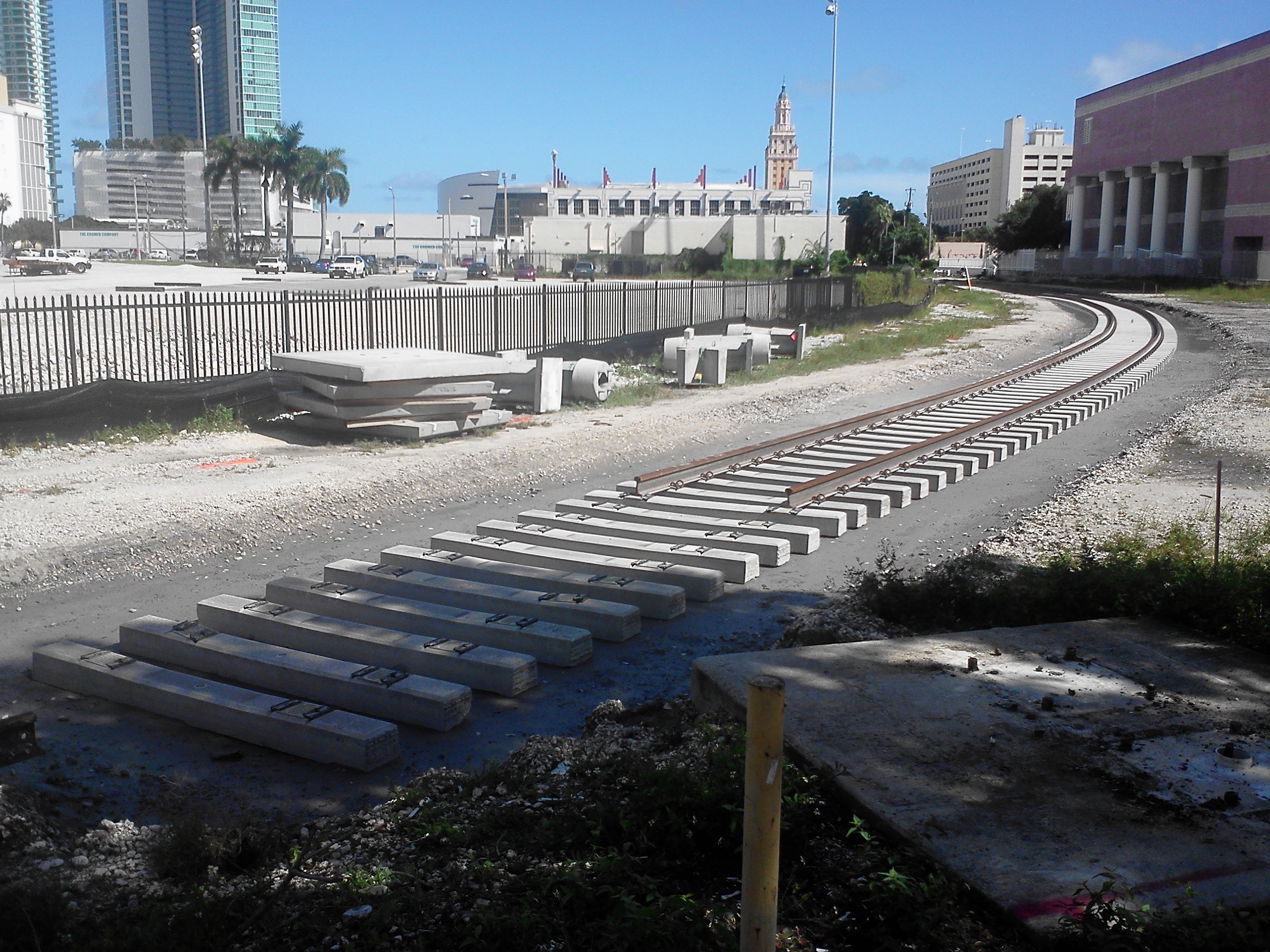 Track replacement of the FEC spur to the Port of Miami